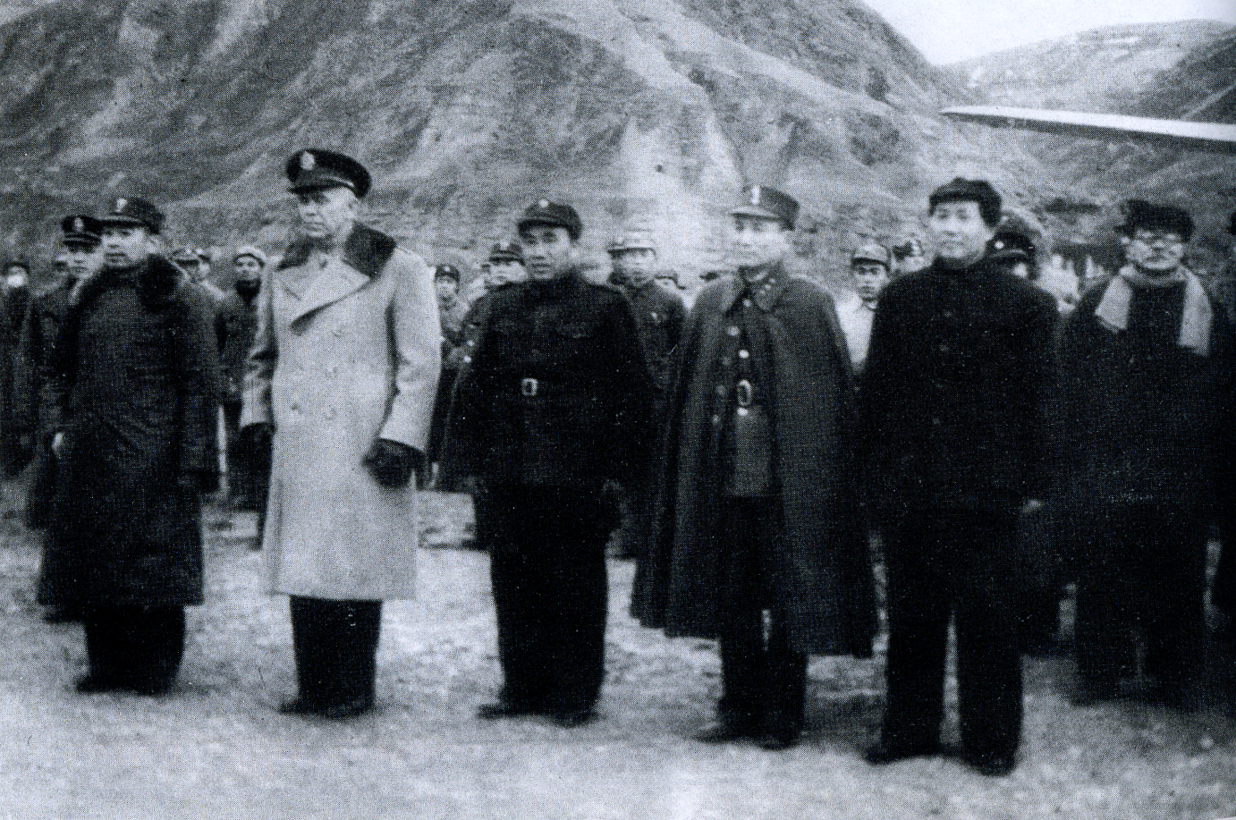 Political Consultation Conference, three people group at Yan'an (from left to right : Zhu Enlai, George Marshall, Zhu De, Zhang Zhizhong and Mao Zedong)